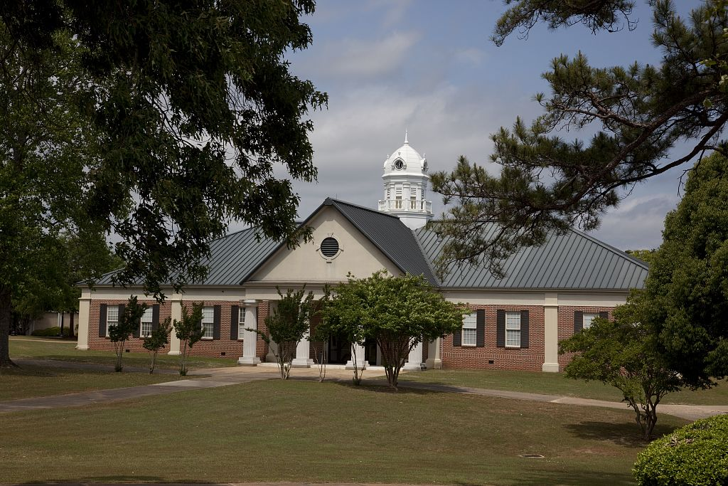 Alabama Southern Community College in Monroeville, Alabama.